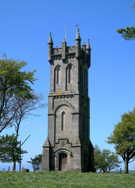 The Wallace Monument On Barnweil Hill. William Wallace was the leader of the Scottish resistance to Edward I of England. During a period of truce, the King's barons summoned the Scots to a Court of Justiciary, held in one of the Barns of Ayr in 1297. Now the site of the Wallace Tower, this building was being used by the English as barracks. Wallace's men arrived first, but 360 Ayrshire barons were hanged one by one as they entered the building. When this was reported to Wallace, he mustered a group of men and returned to the Barns at night, where the English were feasting and celebrating their day's work. In revenge, Wallace and his men sealed the building and set fire to it, killing all the occupants. Ayr Castle was also captured and 5,000 English troops were killed, including the judges who had presided over the Scots' executions. As the Scots left the scene, Wallace stopped at a nearby vantage point to view the blazing remains of the Barns. He is said to have commented: "The Barns o' Ayr burn weel!" Ever since then, the hill has been known as Barnweil Hill. The memorial tower to Wallace was erected in 1856 and, until recently, was available for public access. (Sources: Information Board at the Wallace Tower 1314214 and "Ayr Stories", by Dane Love)